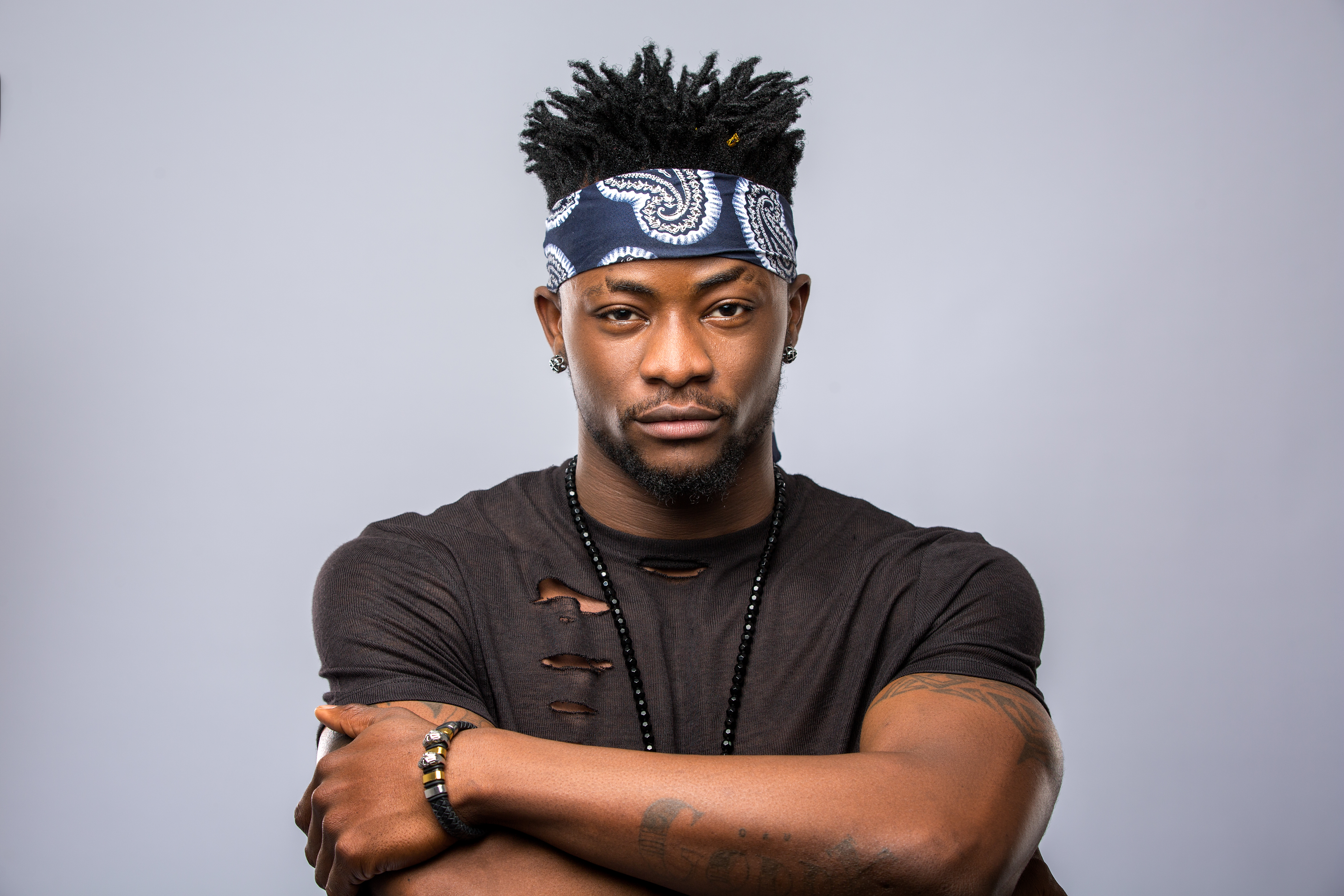 Picture of Nigeria Singer "SELEBOBO"